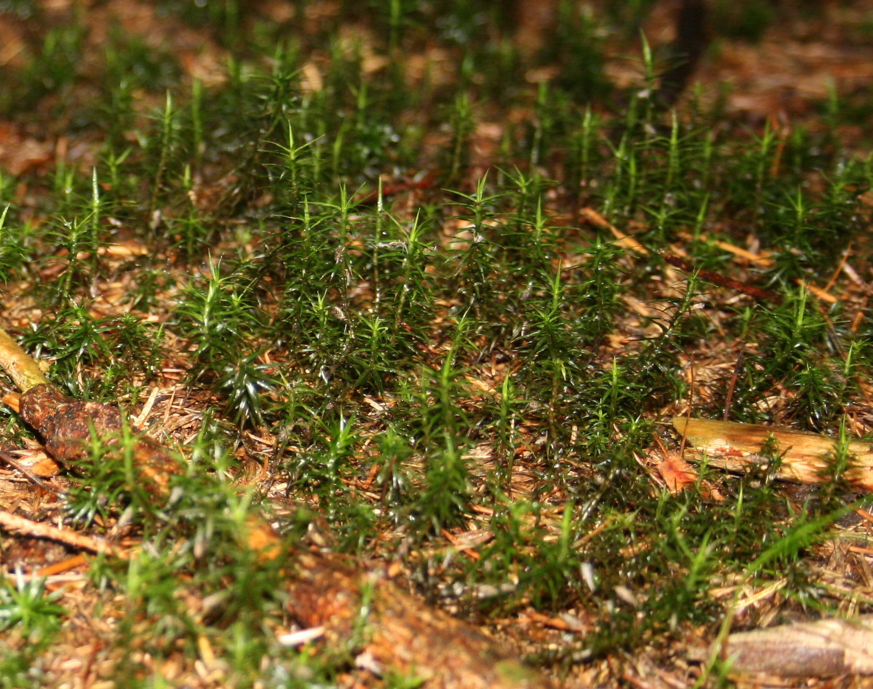 Polytrichum commune, found on hill Straznik, by village Perimov (Czech republic)